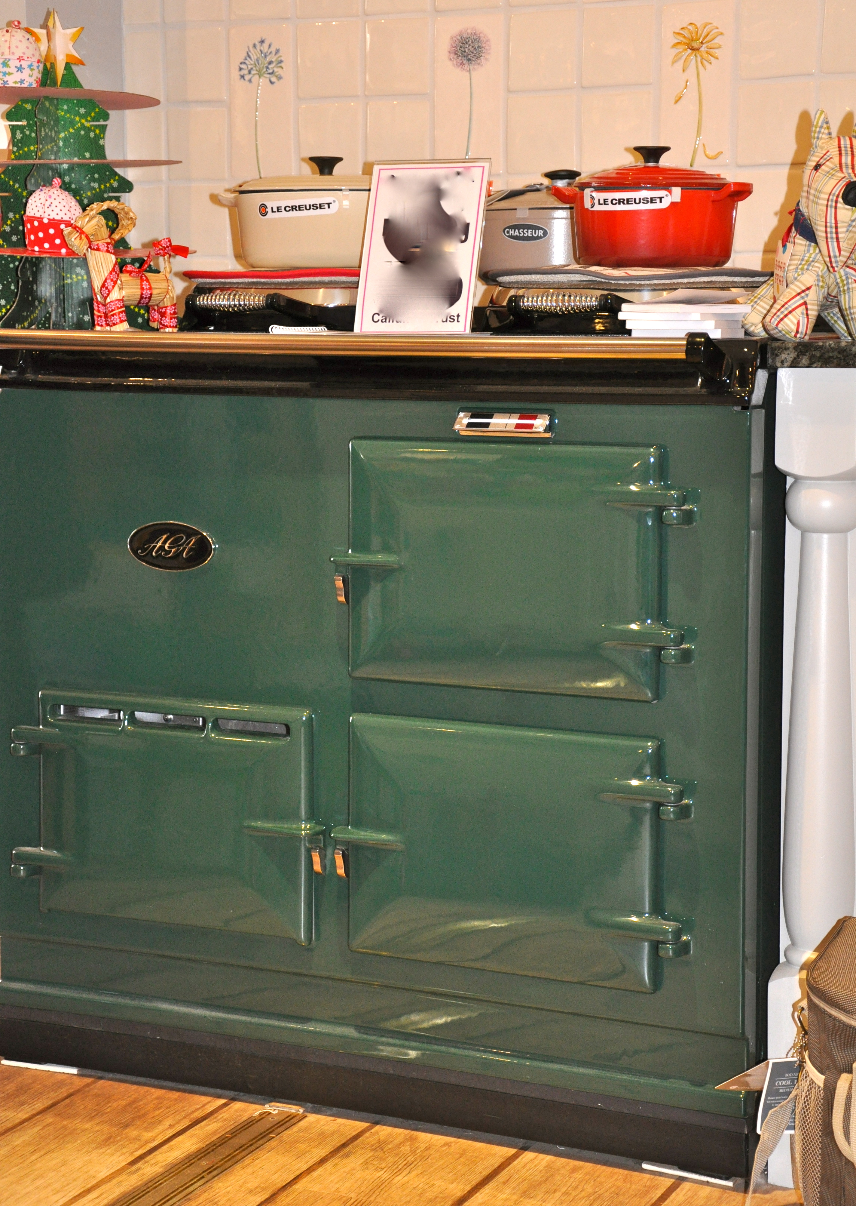 Aga Stove